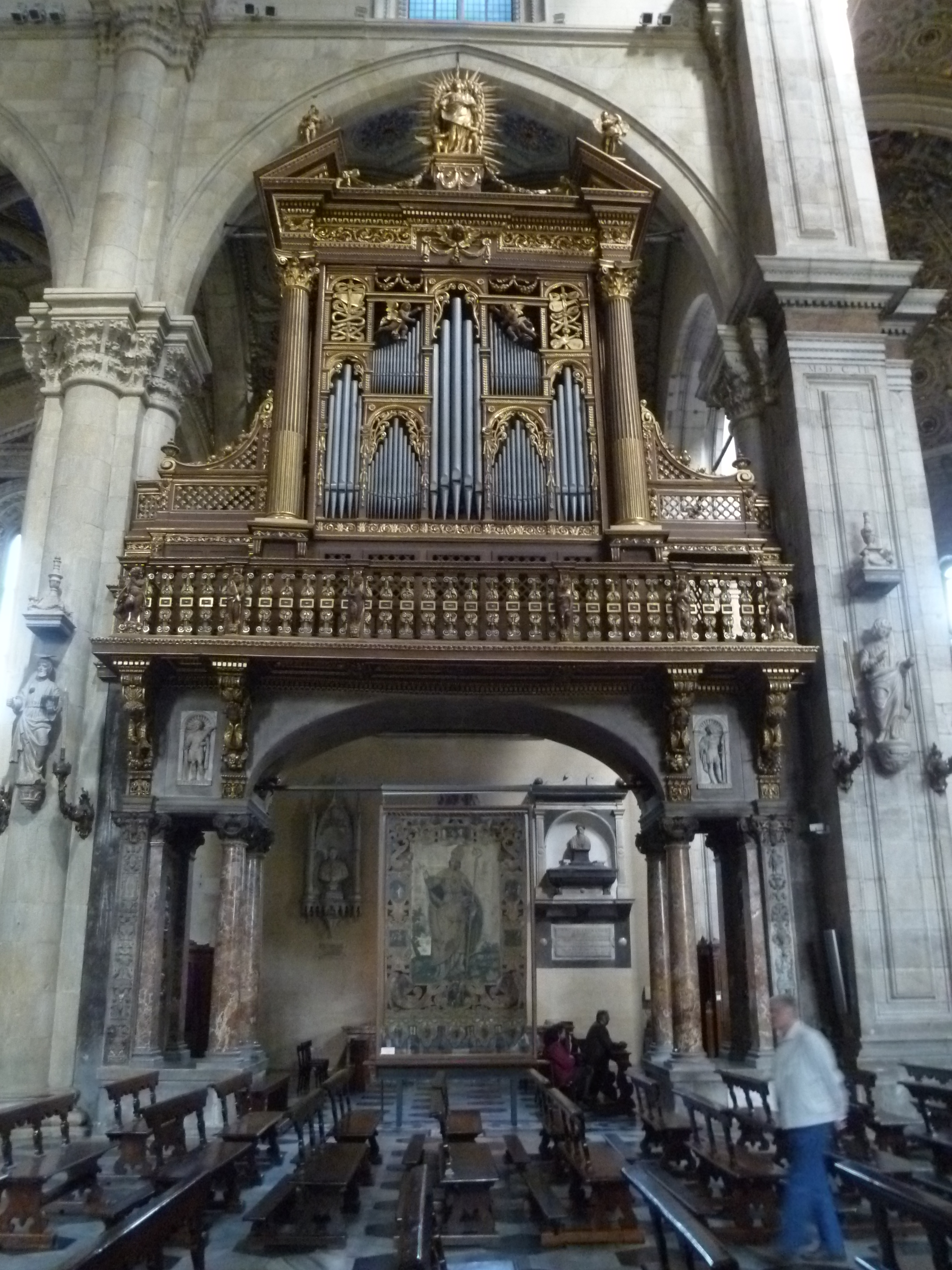 One of the two large organs in Baroque style (early 17th century) in the Como Duomo; Como, Italy